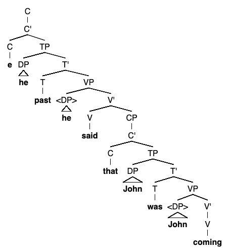 Tree illustrating Binding and c-command- sentence 1